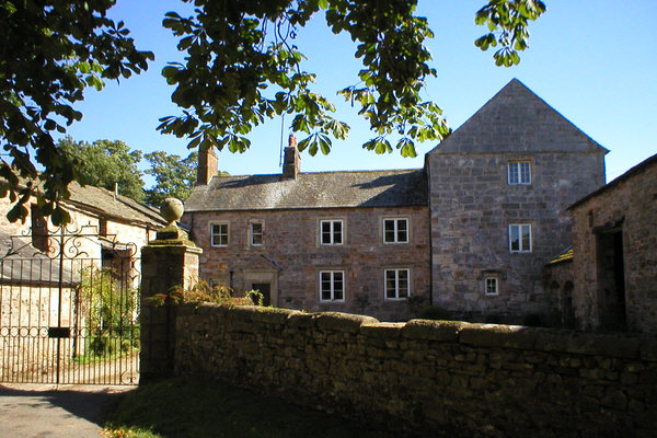 Ormside Hall 14th century Hall - now a farm, with a pele tower.